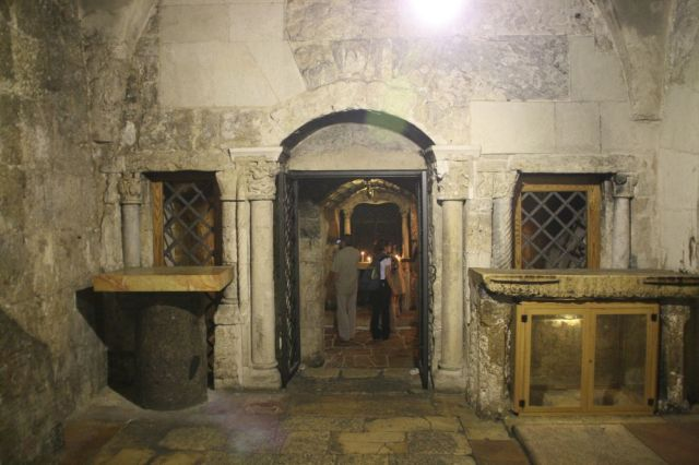 For more pictures and videos of Israel, please visit here. The Holy Prison, or the Prison of Christ